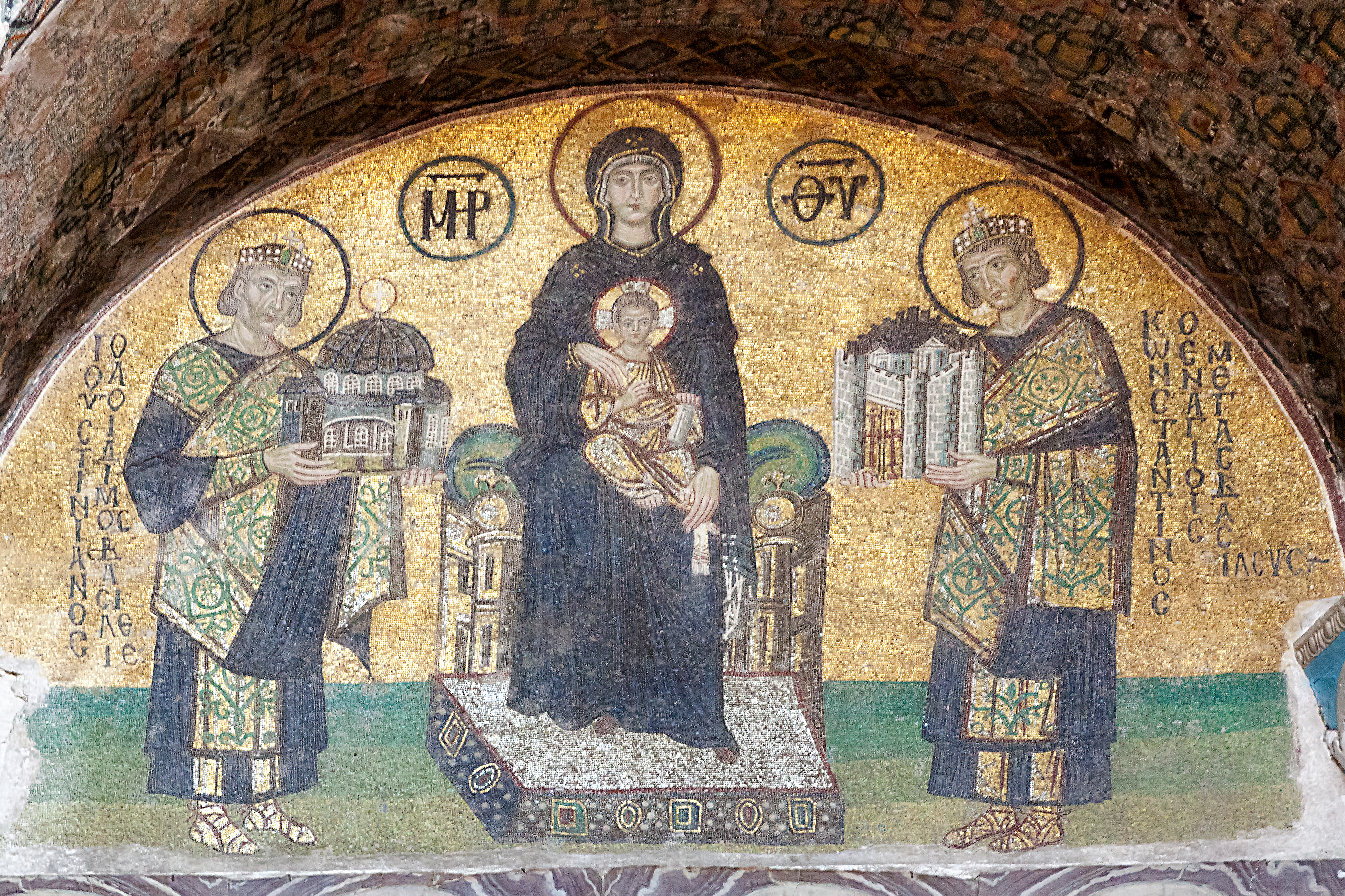 Mosaic icon up to the Hagia Sophia entrance